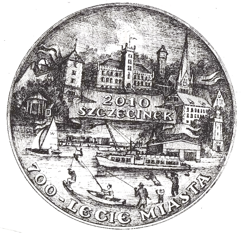 700 Years of the city of Szczecinek